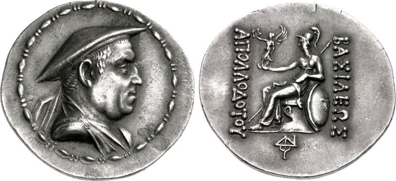 Apollodotus I Attic tetradrachm